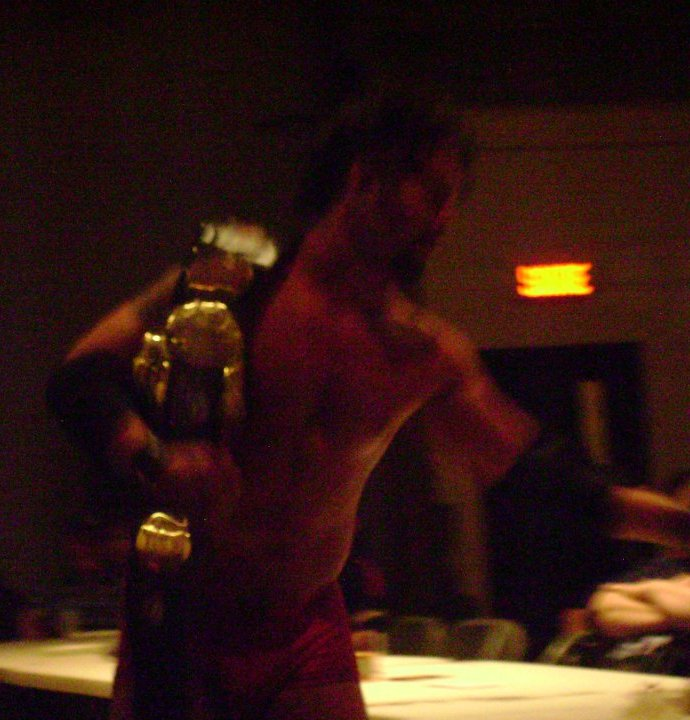 SeXXXy Eddy Winning the NEXT LEVEL Championship 2012-05-19